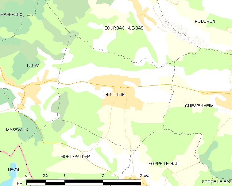 Map of French municipality